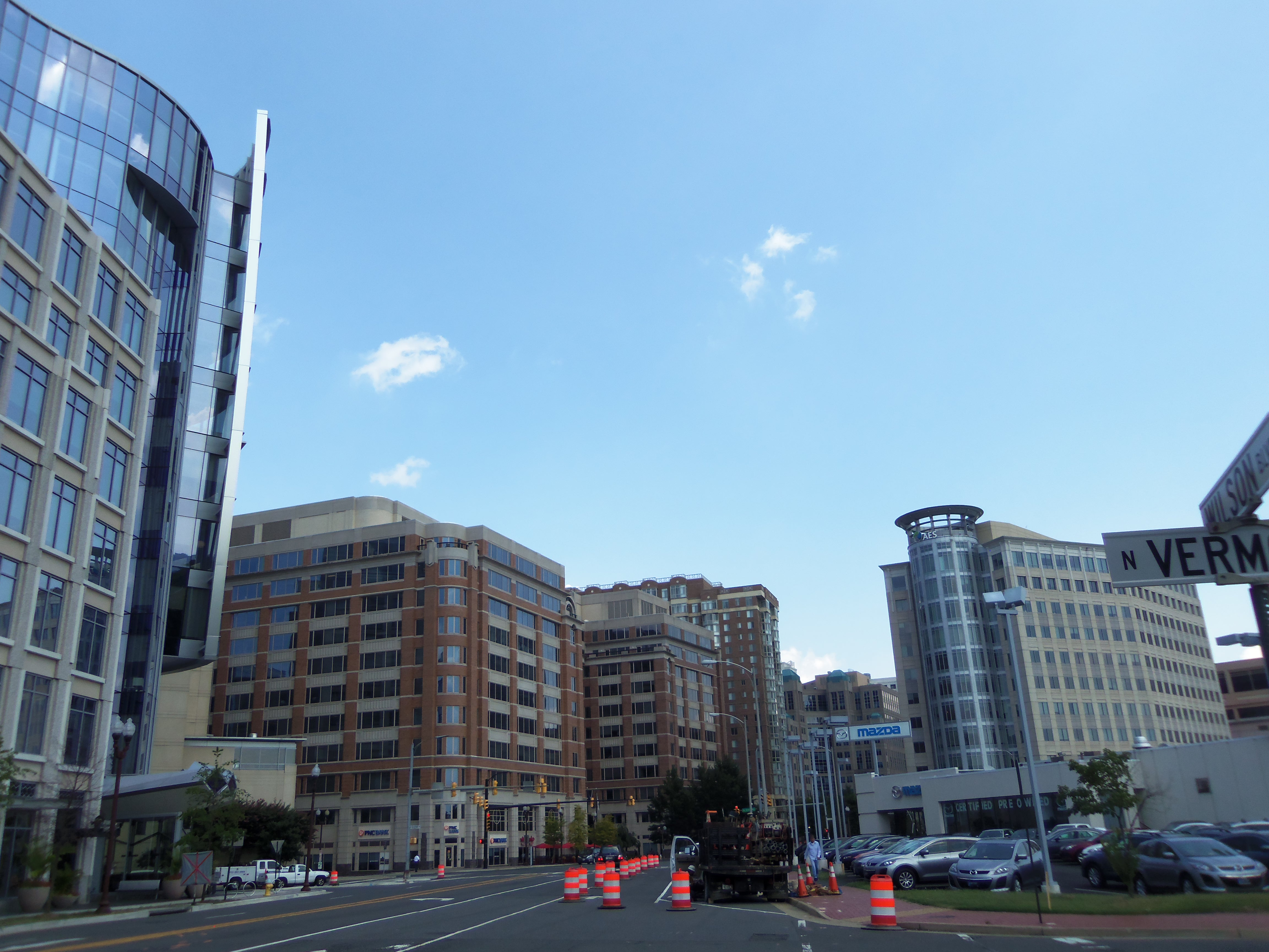 Wilson Drive in Ballston, Arlington County, Virginia.